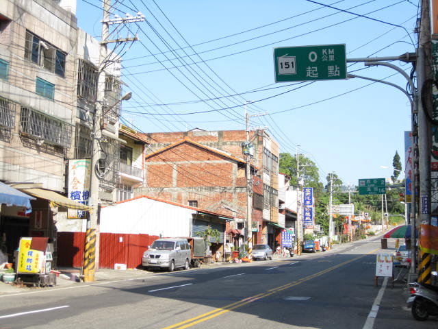 The beginning of County Route No. 151 in Jhushan Township,Nantou County,Taiwan.